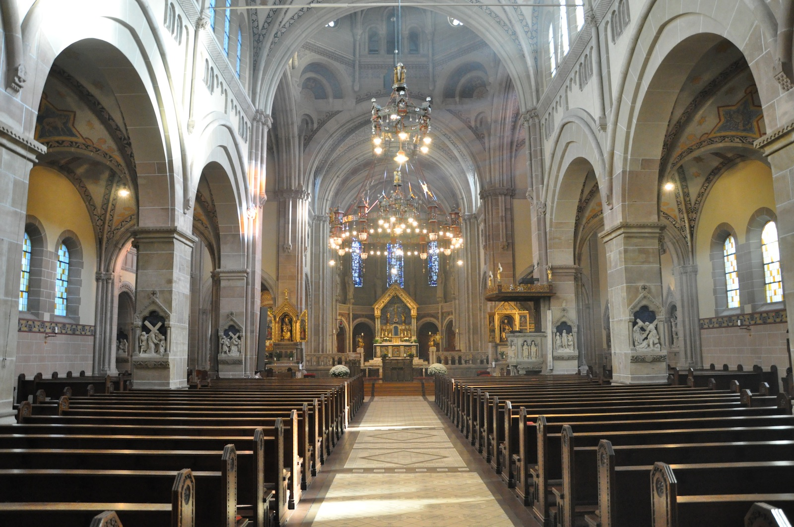 St. Elisabeth's Church, Bonn, Germany